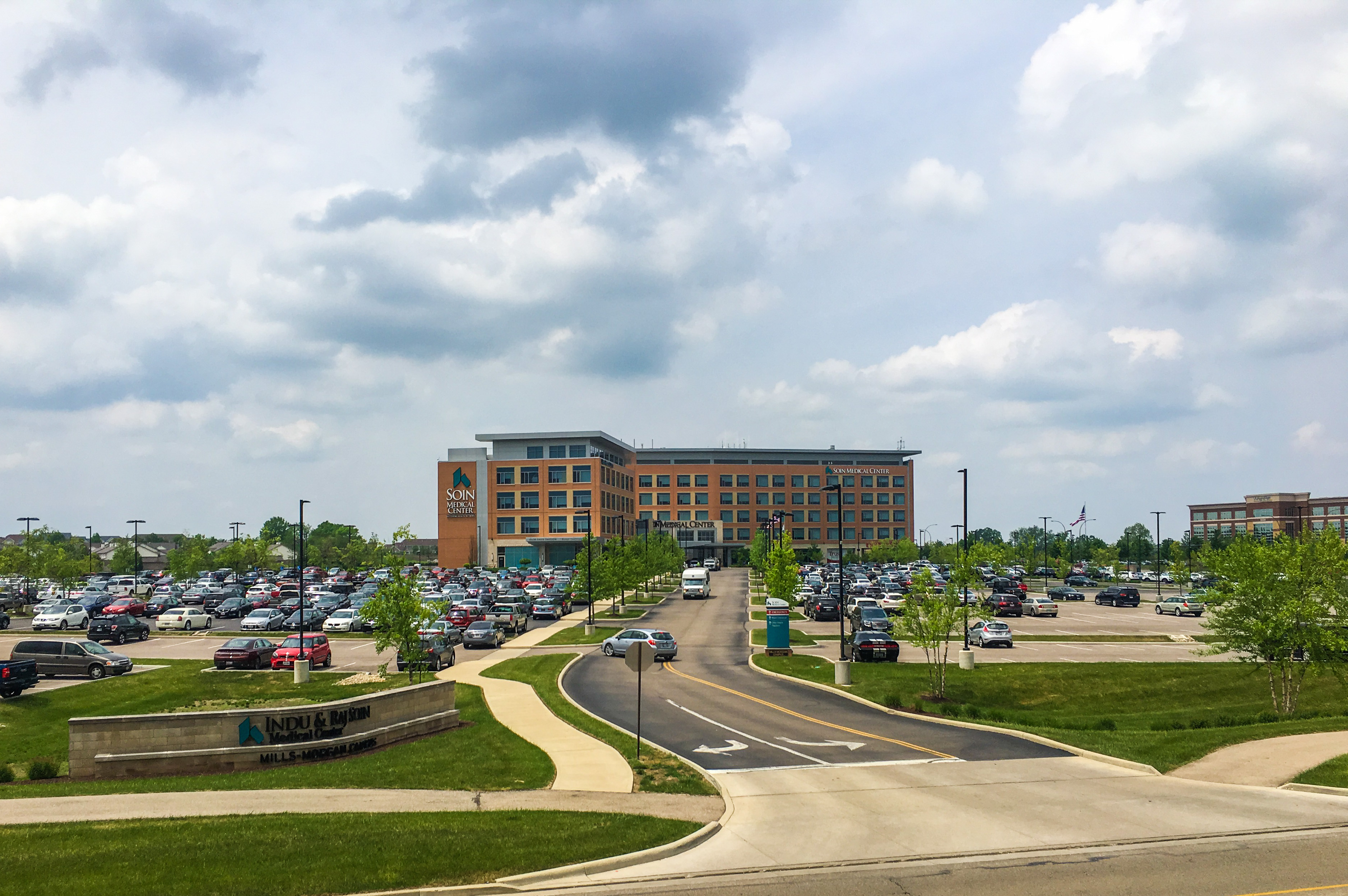 Indu and Raj Soin Medical Center